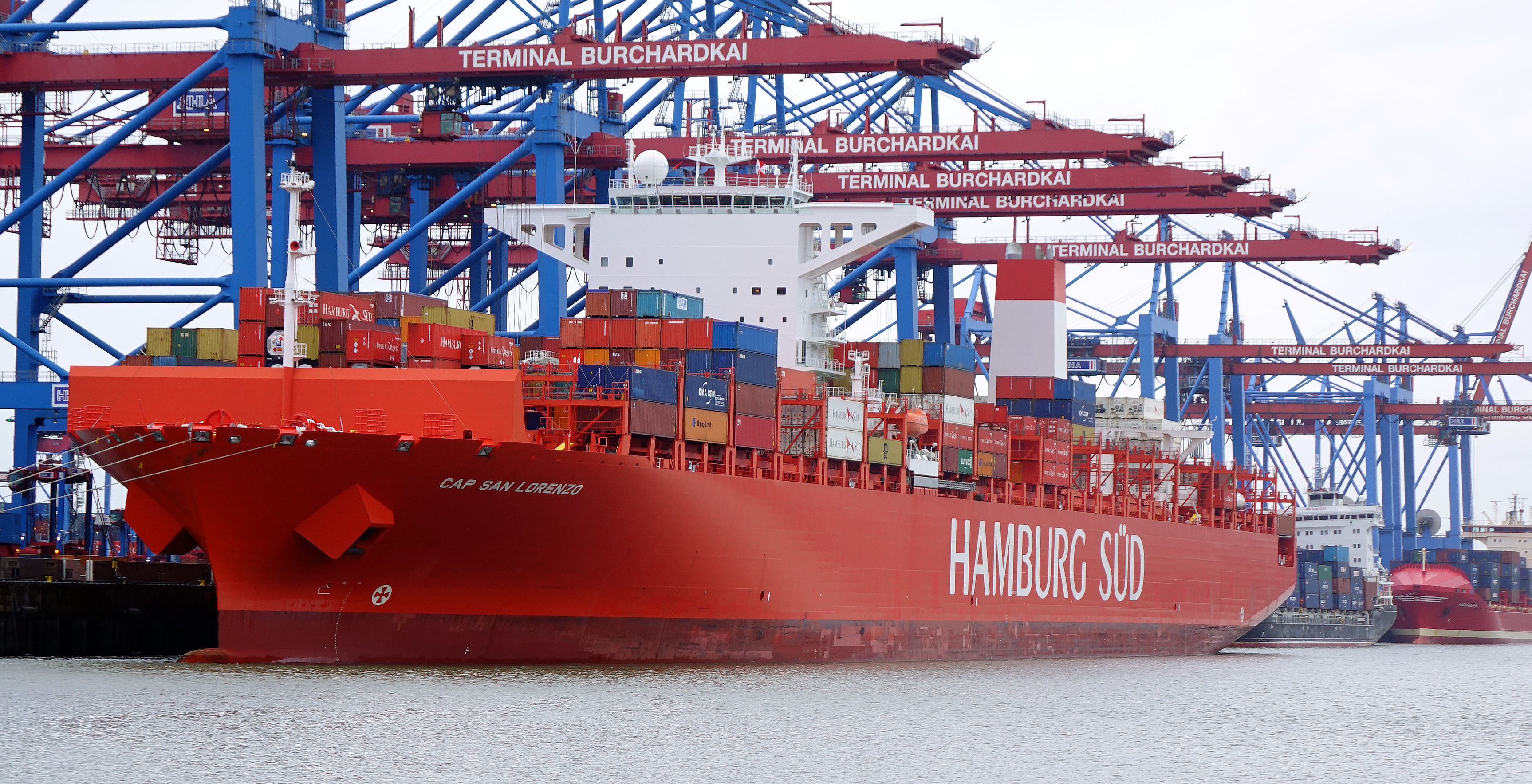 The Container ship Cap San Lorenzo, Container Terminal Burchardkai - Hamburg